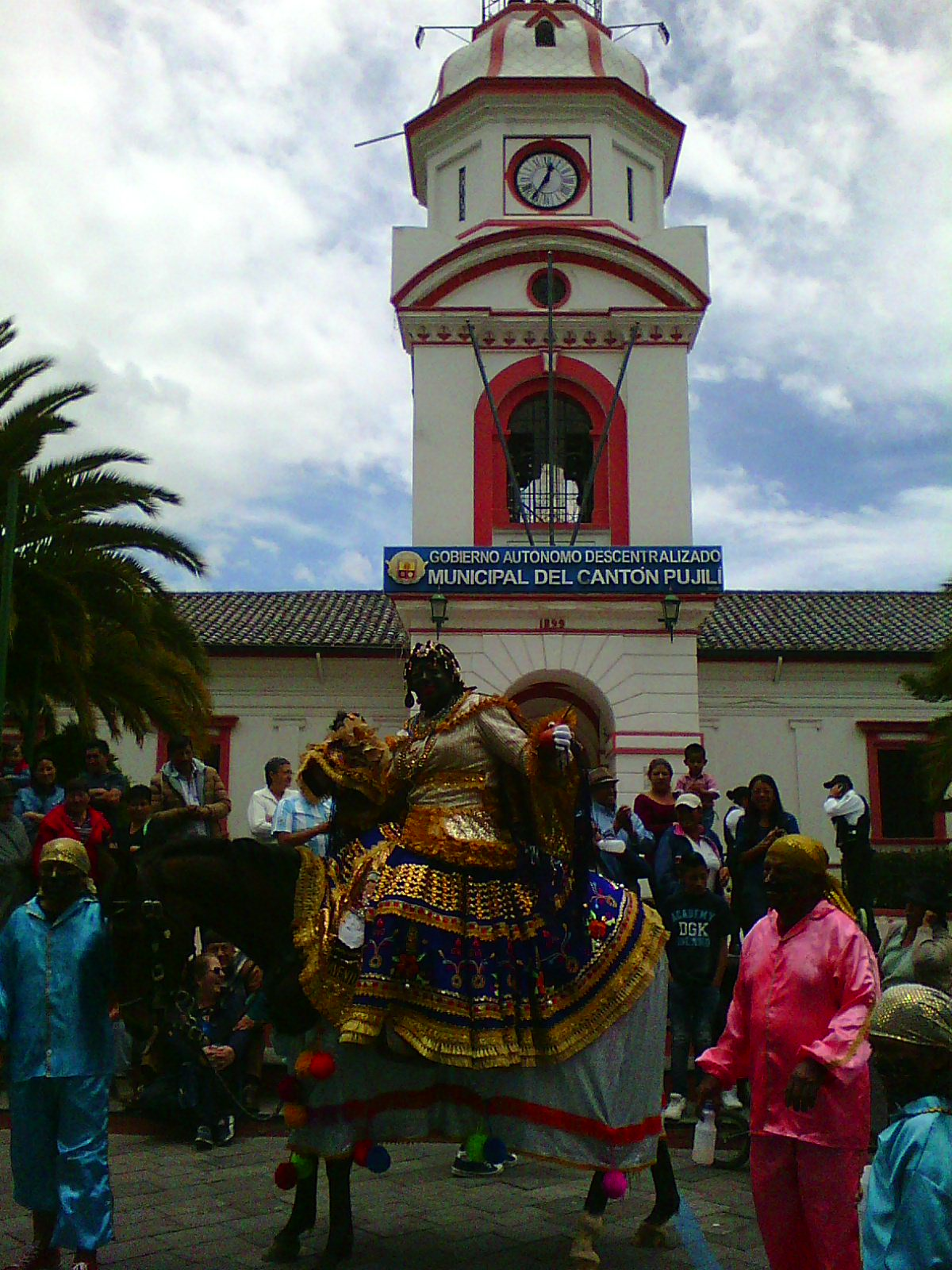 Black Mama of Latacunga in Pujilí.